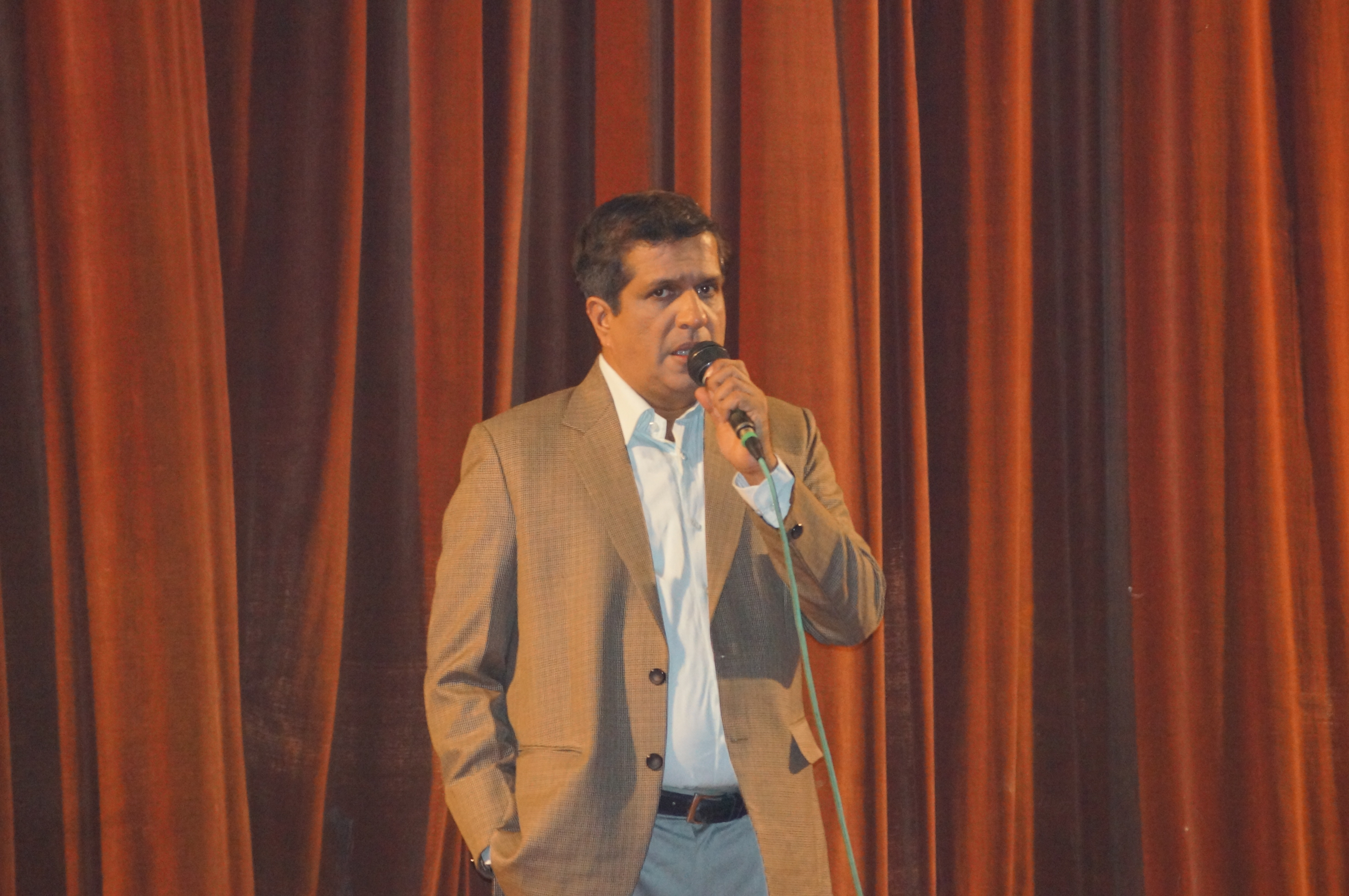 Darshan Jarivala